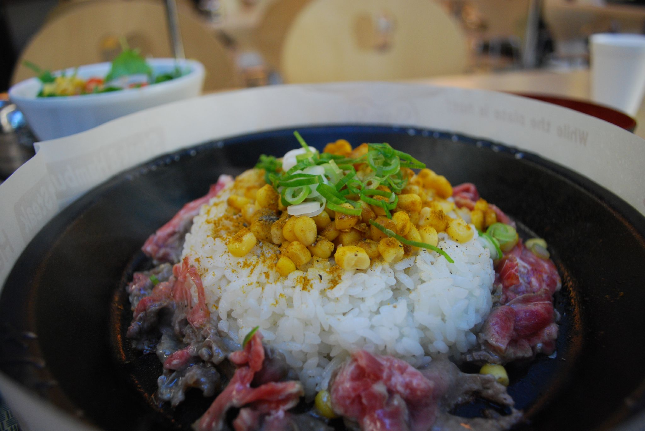 Beefy beef at a Japanese chain shop, including tender, juicy wagyu. Too rich to have every day! I prefer the beef strips with rice. The slab or marbled rib-eye steak was a bit too rich.